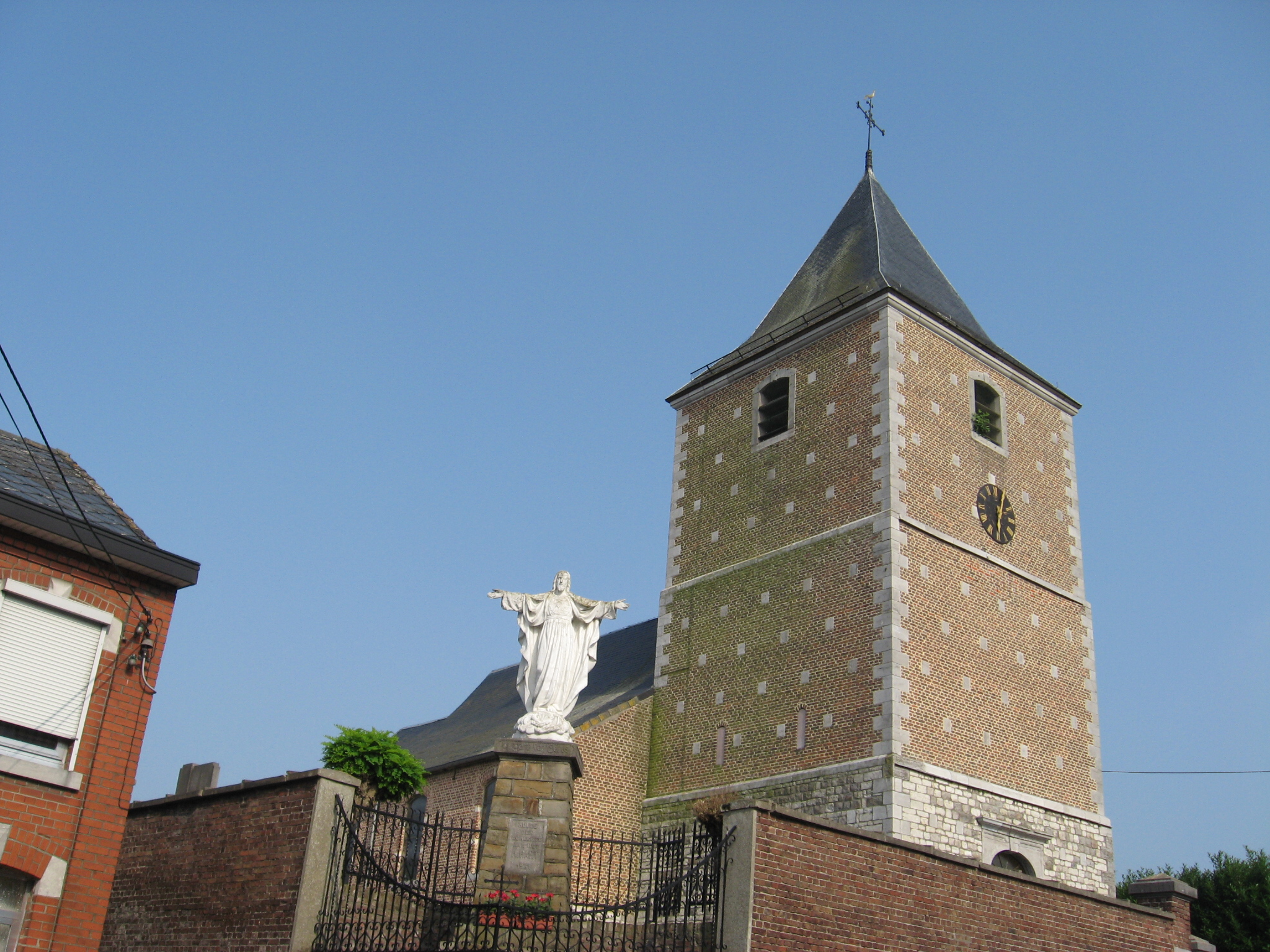 Church of Saint Wivine in Overwinden, Landen, Flemish Brabant, Belgium